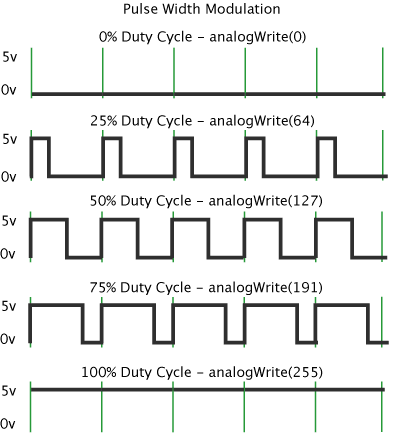 A diagram showing a pulse width modulated signal at 0%, 25%, 50%, 75% and 100% intensity.